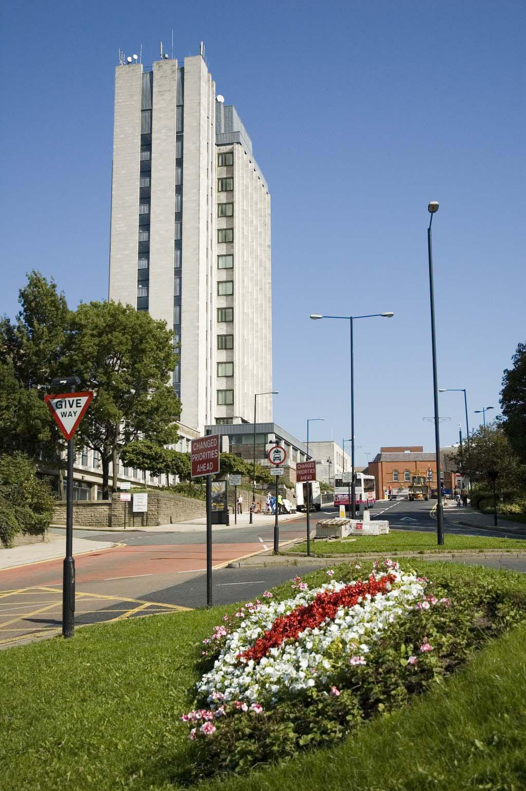 Photographer: Keith Etherington